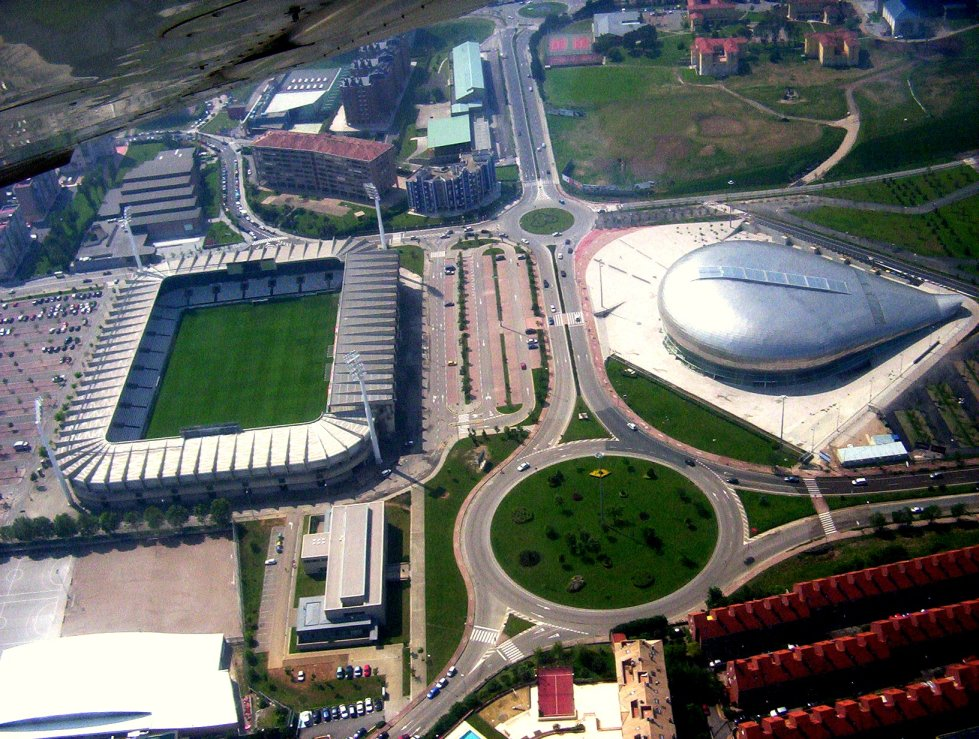 El Sardinero stadium and Sports Palace (Santander, Spain)